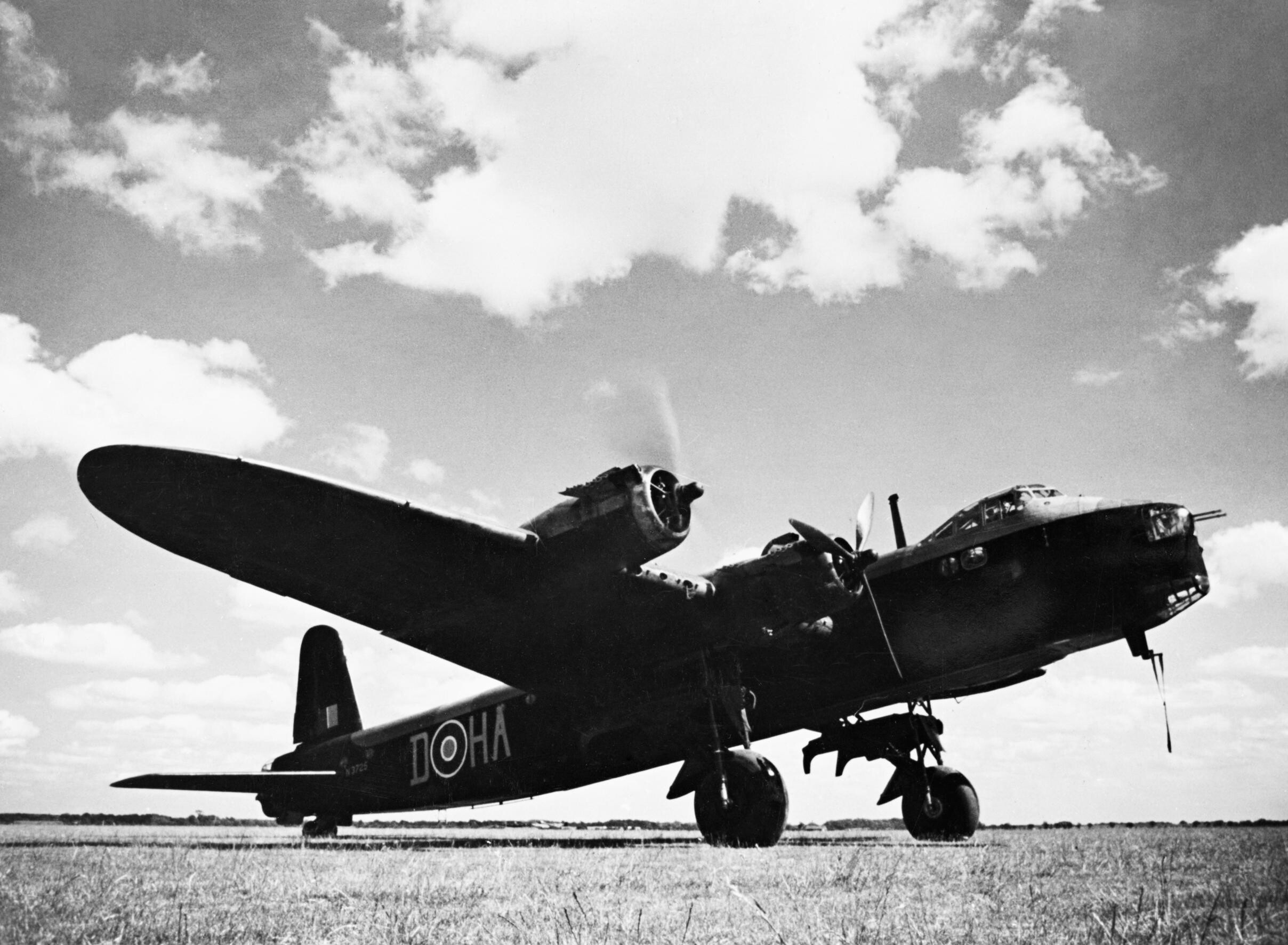 Short Stirling Mk I of No. 218 Squadron RAF at Marham, Norfolk, June 1942. Short Stirling Mark I, N3725 'HA-D', of No. 218 Squadron RAF, running its starboard outer engine at Marham, Norfolk.